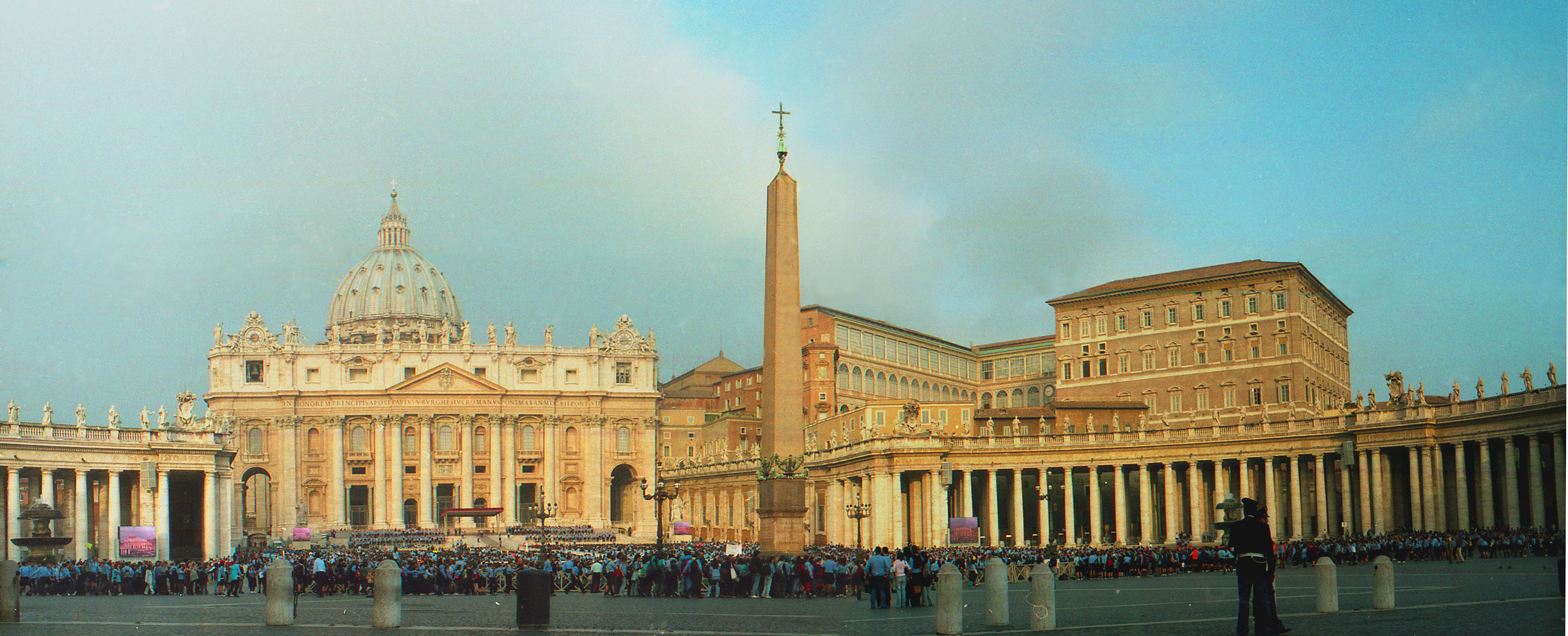 Last Exit Pope John Paul II to scout